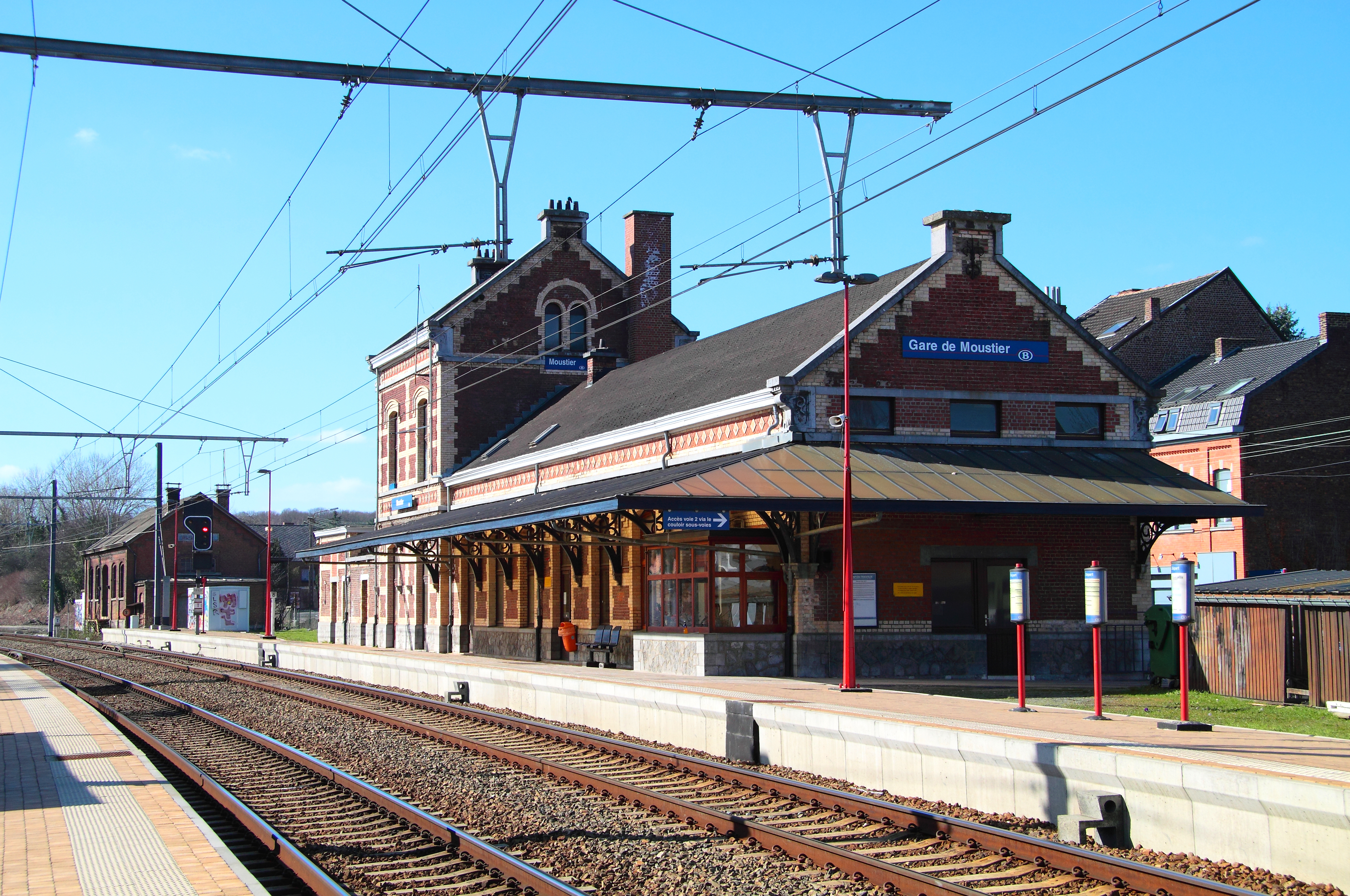 Moustier train station